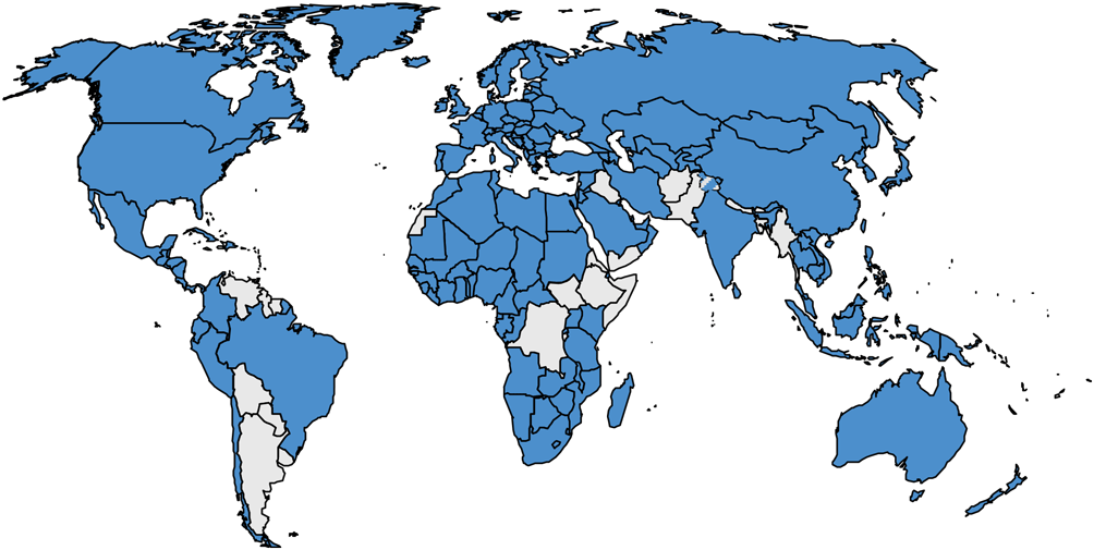 The PCT now has 152 Contracting States as of 2017.03.09